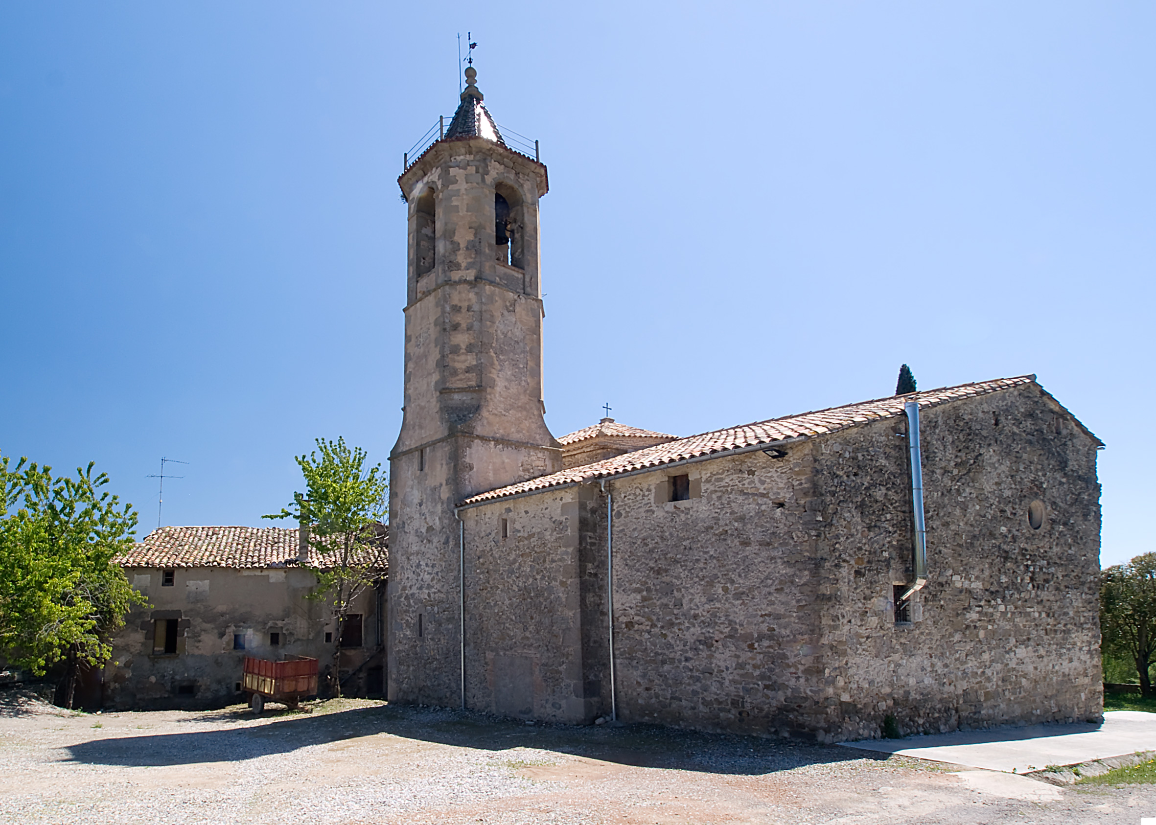 Santa Cecília de Voltregà church (Catalonia, Spain)